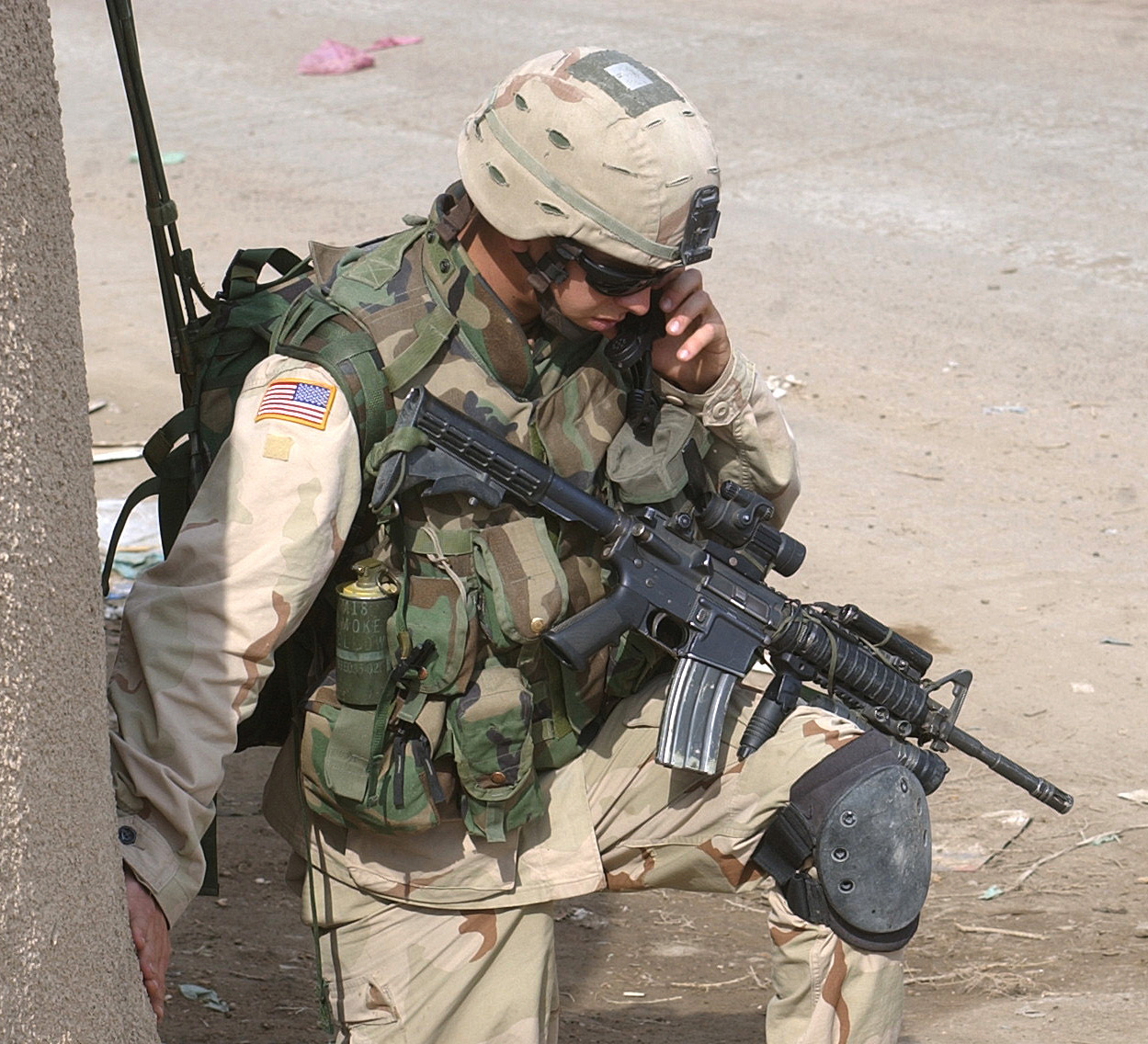 A paratrooper communicates through a tactical radio during a response to shots being fired in Fallujah, Iraq. The Soldier is assigned to the 82nd Airborne Division's Company B , 1st Battalion, 505th Parachute Infantry Regiment. He was helping provide security for a meeting between Gen. John Abizaid, commander of the U.S. Central Command, and the Al Fallujah Council.